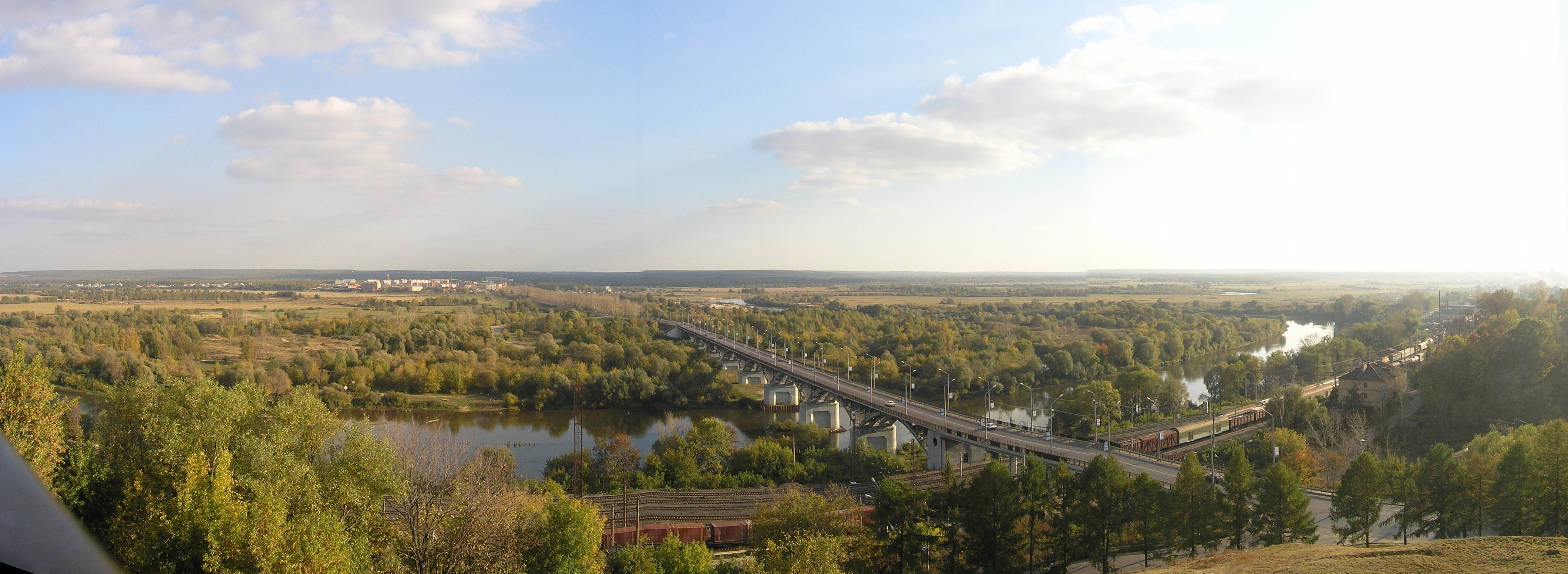 Vicinity of Vladimir, Russia.